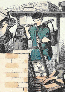 The mason